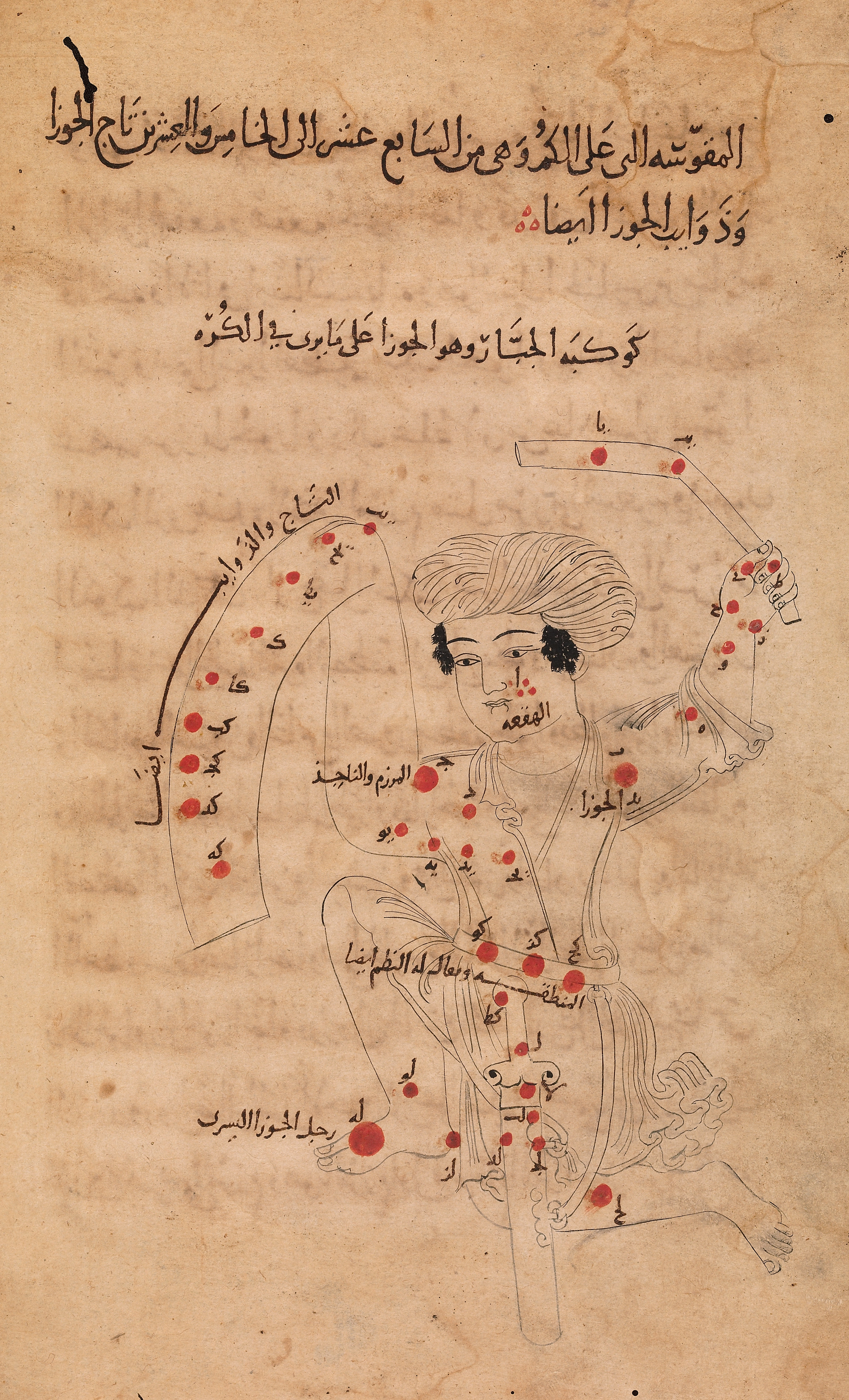 Orion (al-jabbar), the giant. (Constellations of the southern hemisphere). From Al-Sufi's Book of the Fixed Stars (Kitāb Ṣuwar al-kawākib (al-thābitah)), a revision of Ptolemy's Almagest with Arabic star names and drawings of the constellations. Dated 1009-10 (A.H. 400). Shelfmark: MS. Marsh 144. Illustration showing Orion as it would appear in the celestial globe, the mirror image of how it appears to an observer from the earth. Al-Sufi's book had two illustrations for each constellation, showing both views.